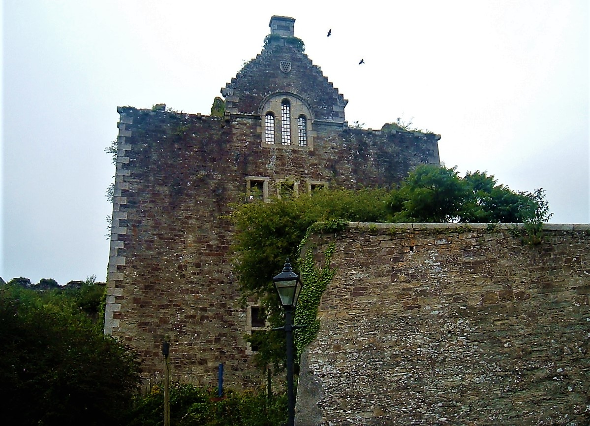 Former Naval Officers Quarters Including Boundary Walls To East Wikidata has entry Q26501427 with data related to this item.